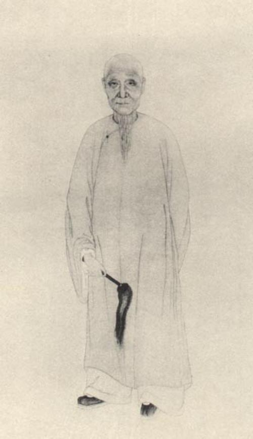 PAN Yijun, politician and scholar of the Qing Dynasty.